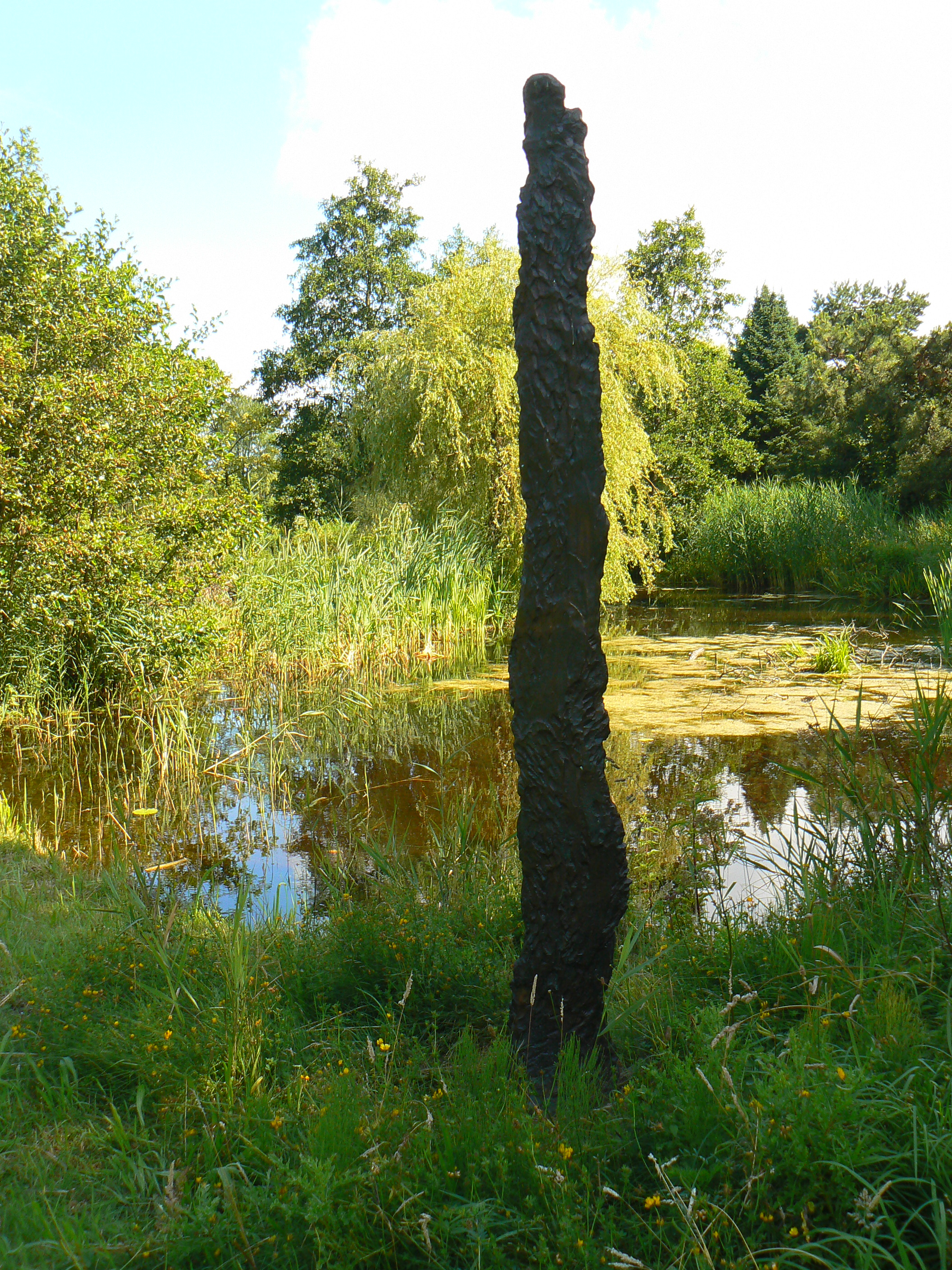 Sculpture First Falls II (1978) by Bryan Hunt, Siegerpark in Amsterdam/The Netherlands